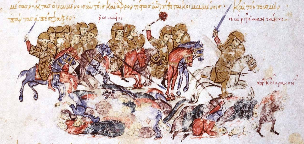 General Georgios Maniakes slaughters the Arabs